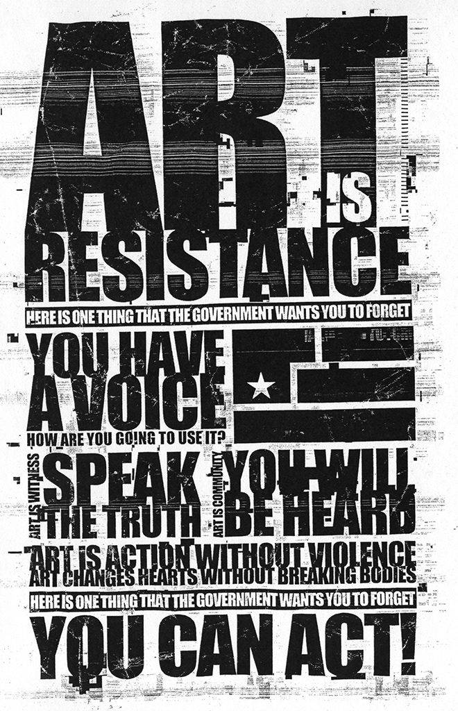 A flier from the Year Zero alternate reality game distributed in Los Angeles